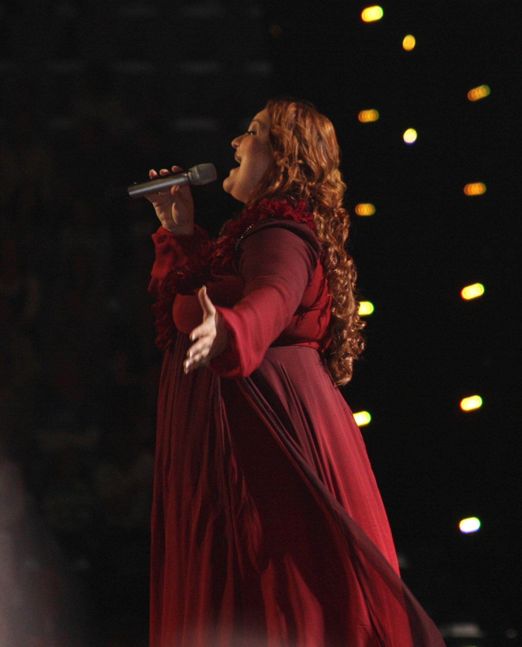 Hera Björk, Iceland's artists at the ESC 2010, Telenor Arena, Norway.